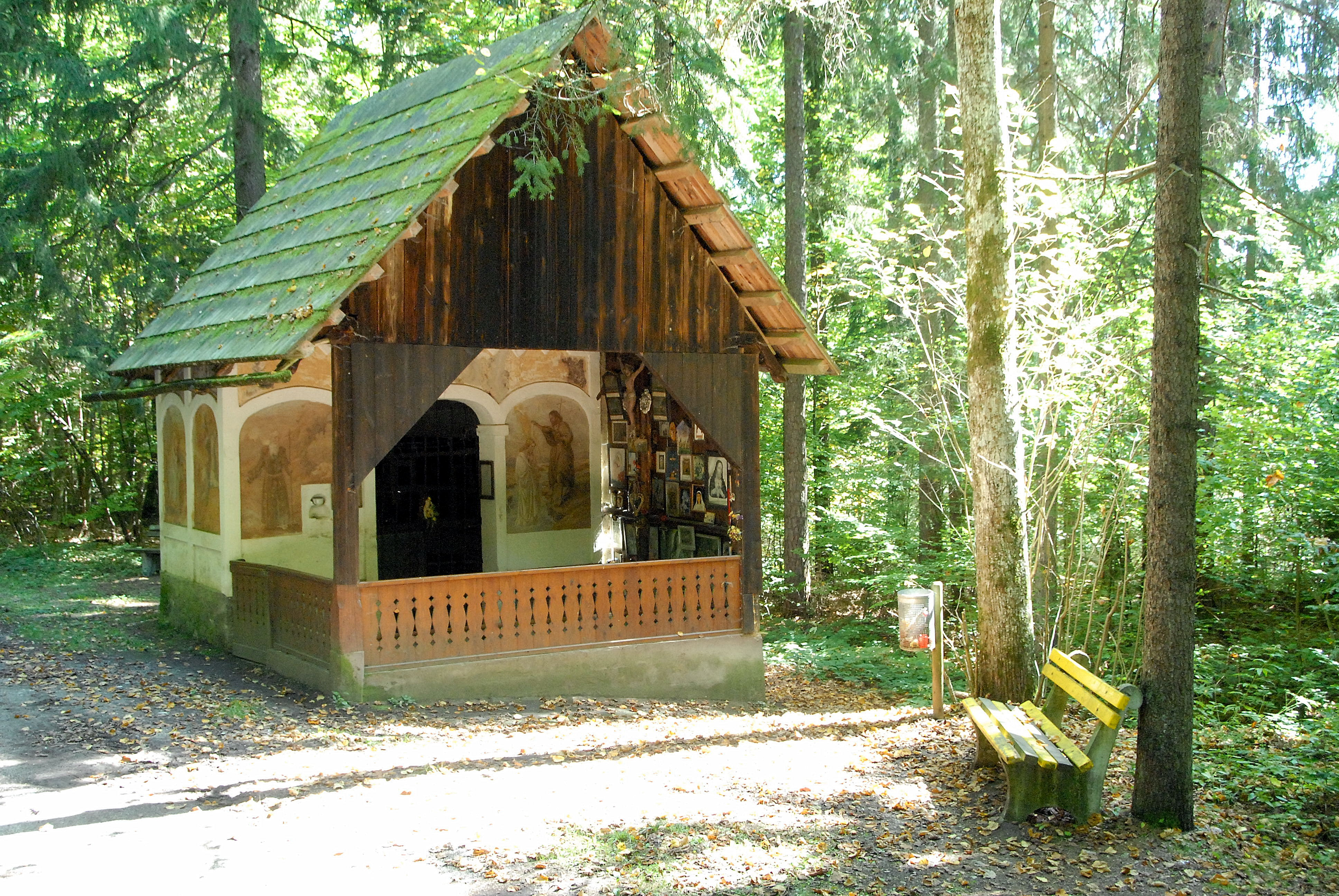 Forest chapel "Maria Waldesruh" at Tschachoritsch in the community Koettmannsdorf, Carinthia, Austria